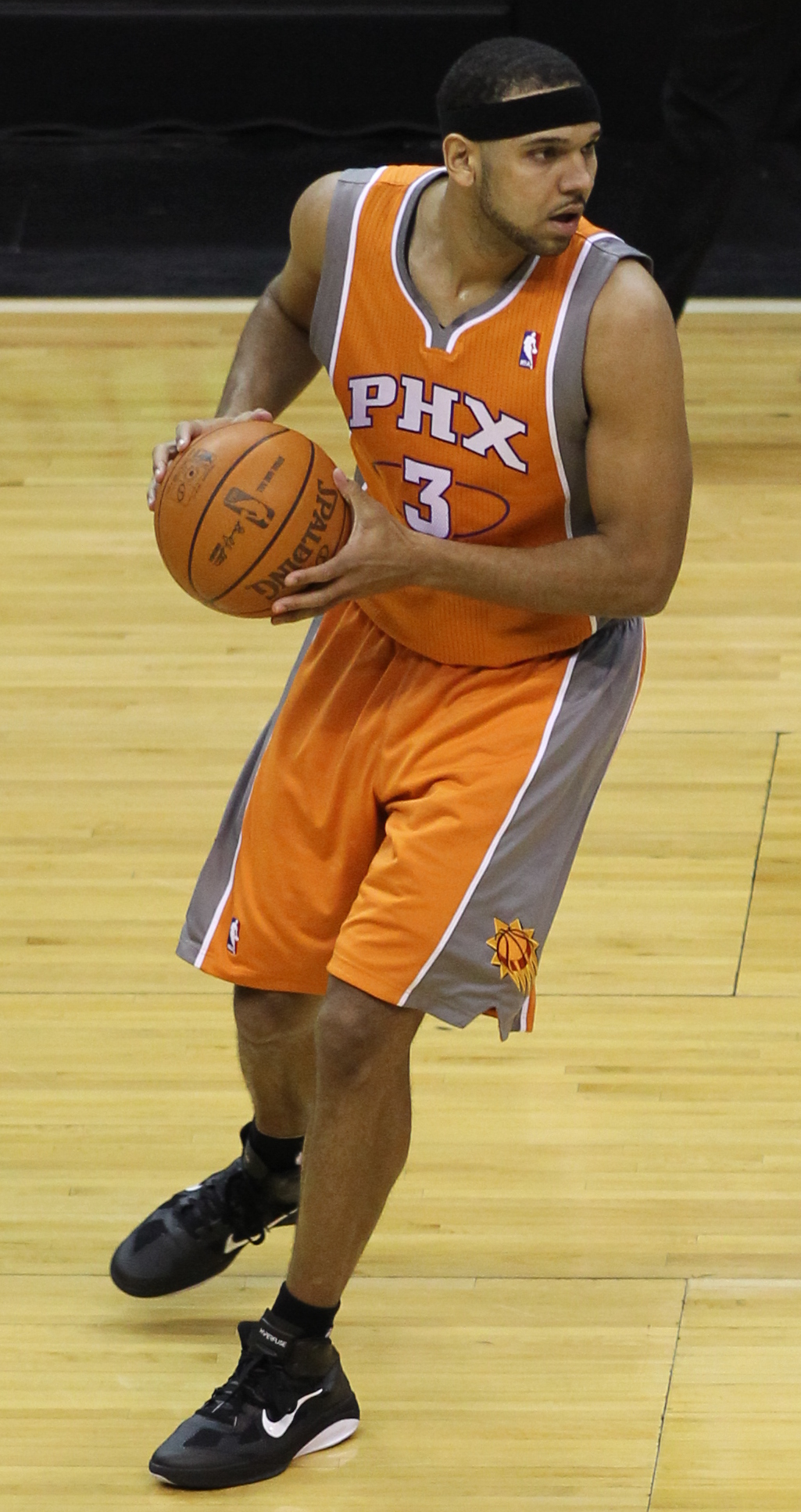 Washington Wizards v/s Phoenix Suns January 21, 2011